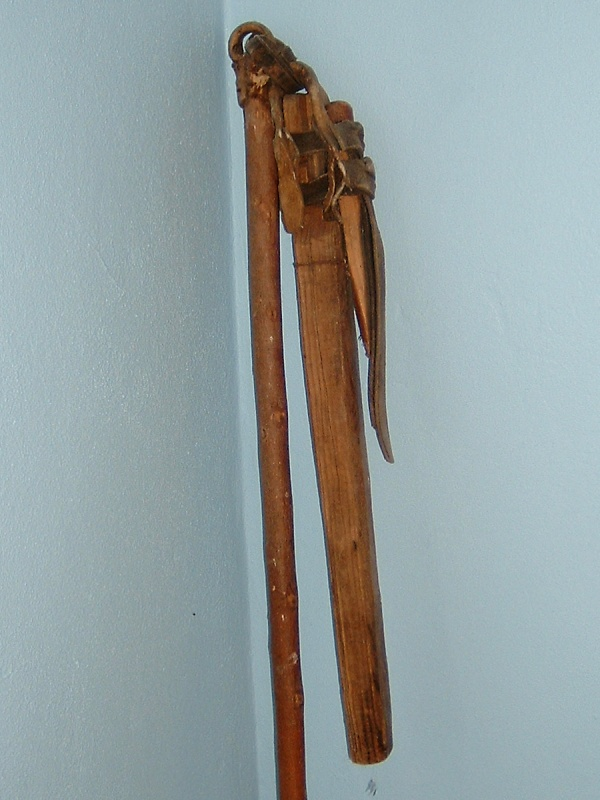 Threshing flail